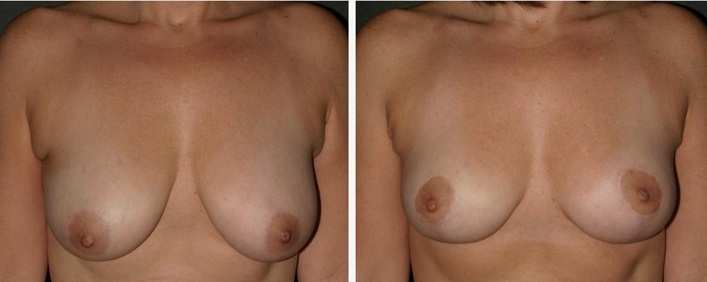 Breast reduction: pre-operative and post-operative front views.